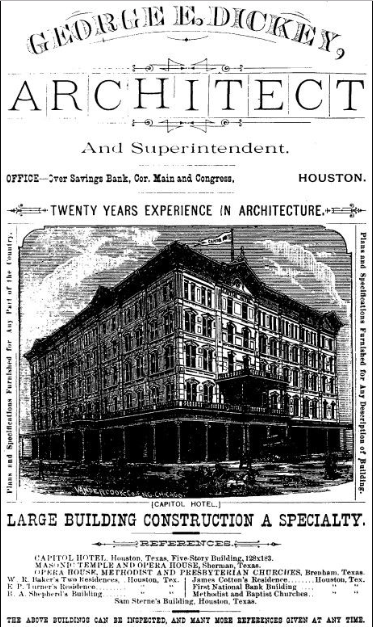 An advertisement for George E. Dickey, architect, Houston, Texas, between 1883 and 1889